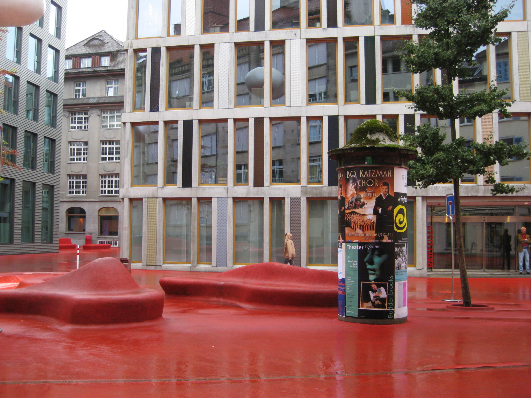 Pipilotti Rist (artist), Carlos Martinez (architect), City Lounge, 2005, - Switzerland, Canton of St. Gallen, St. Gallen